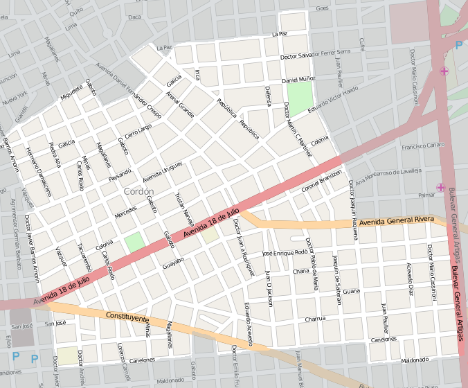 Map of Cordon, Montevideo, Uruguay. This map may be incomplete, and may contain errors. Don't rely solely on it for navigation.